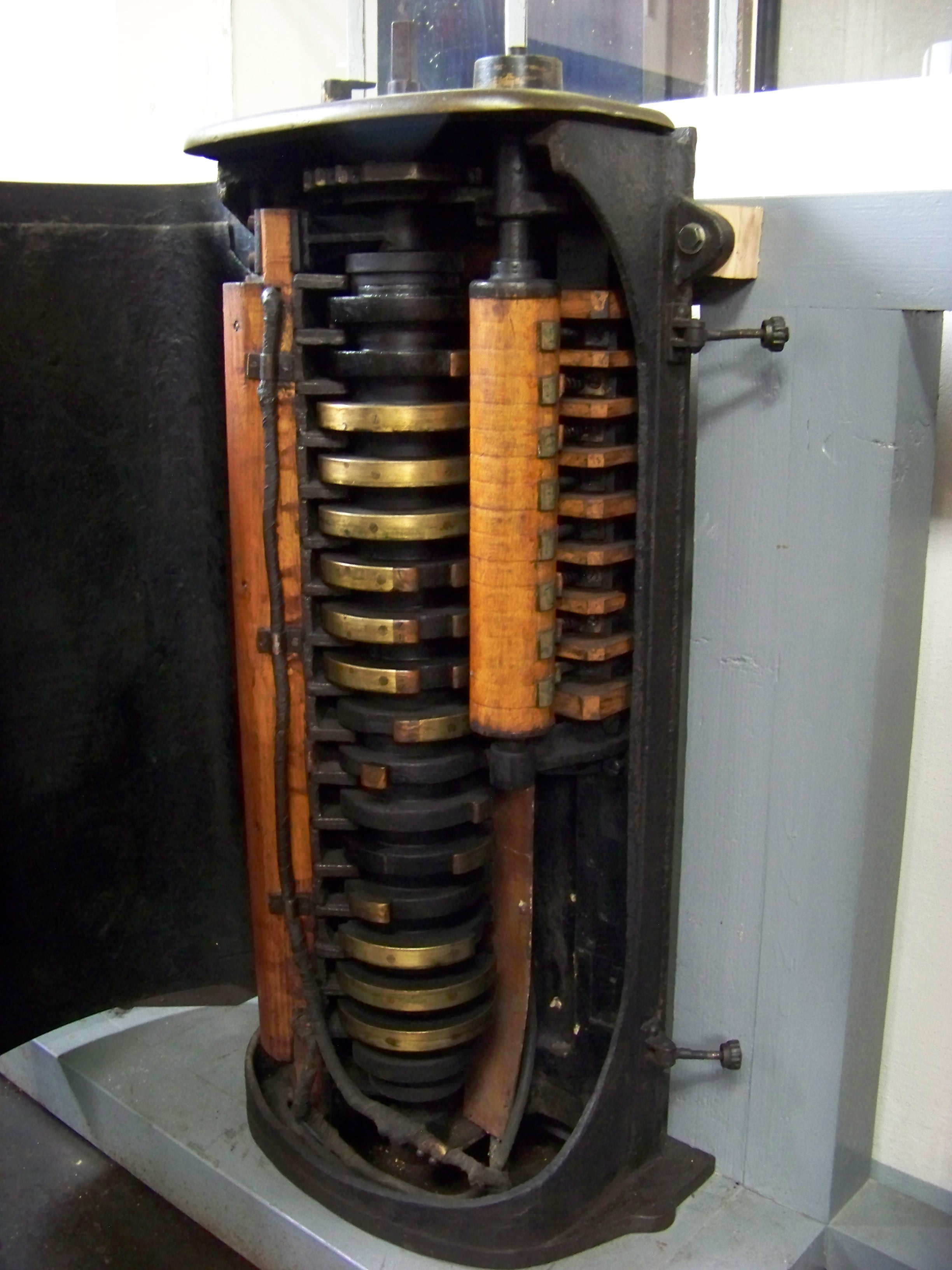 Prague-Střešovice, Czech Republic. Střešovice tram depot, Public Transport Museum. a tram controller.